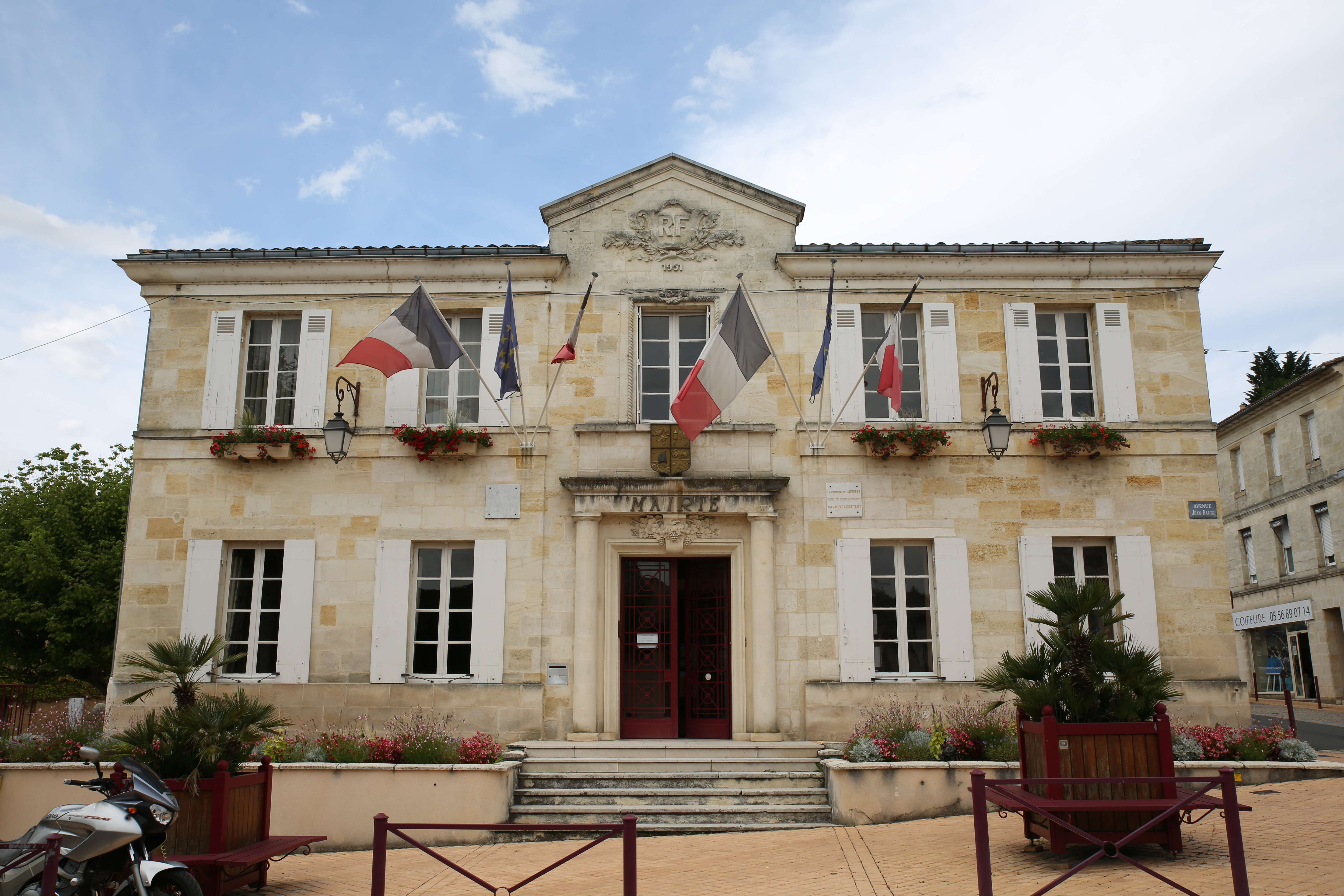 Mairie de Latresne